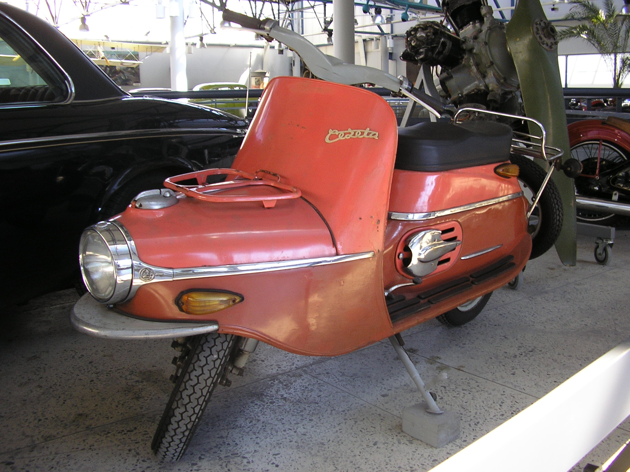 A 1960 Čezet-502/00. Powered by a single cylinder two-stroke engine of 172 cc giving 9.5 hp and a top speed of 90 km/h. Total weight is 148 kg.